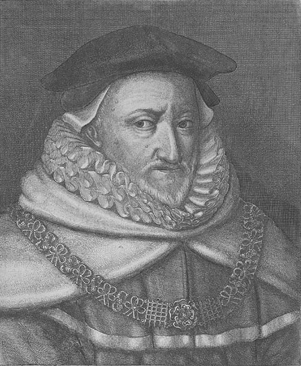 Sir Ranulph Crewe (1558-1646). Unknown artist